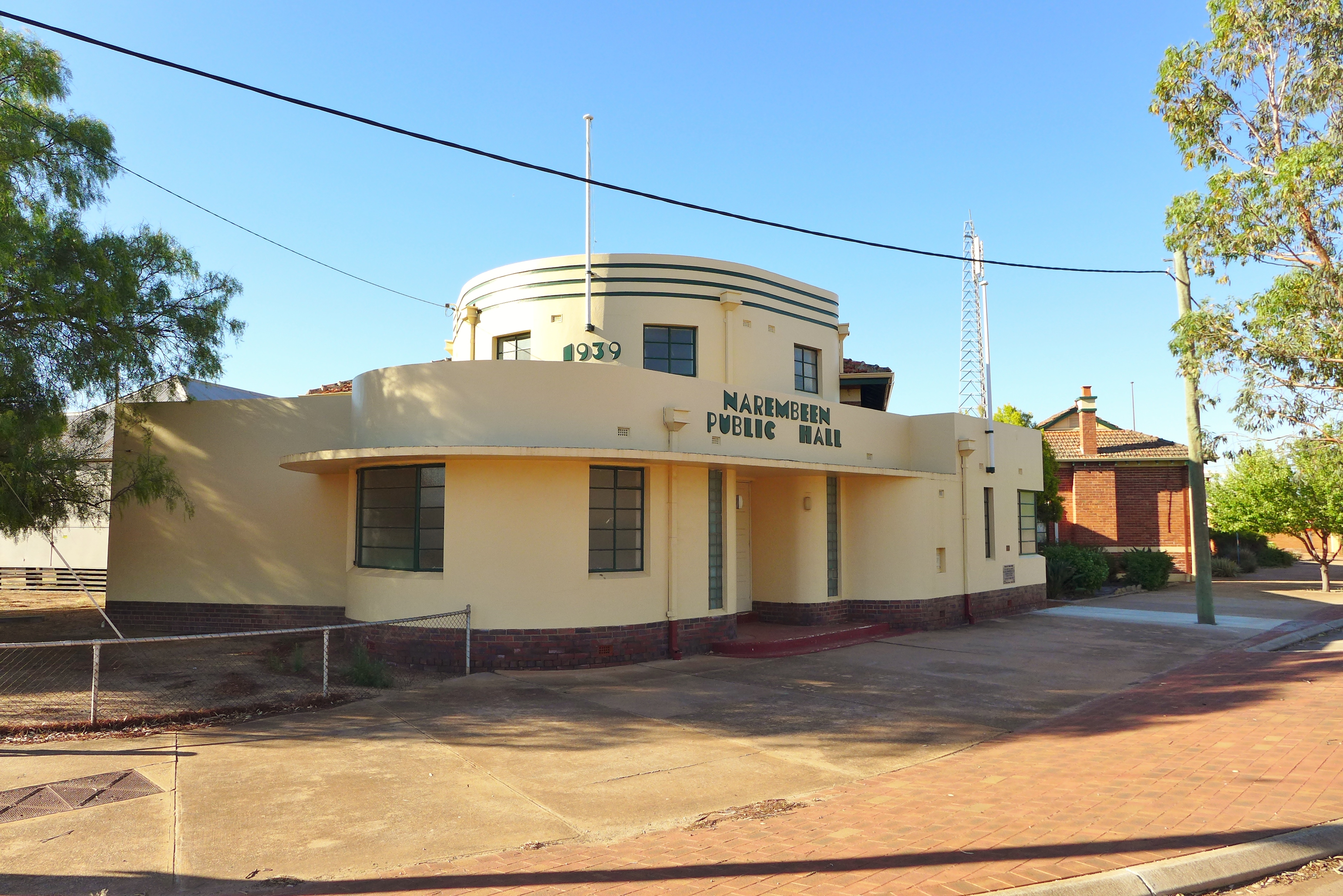 View of the Narembeen Public Hall, Narembeen, Western Australia.